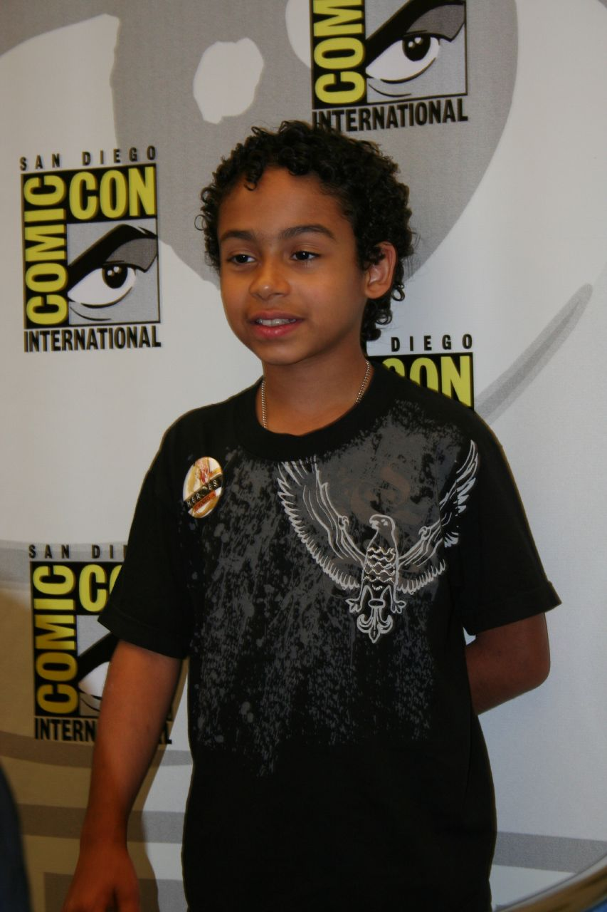 Noah Gray-Cabey, American child actor.